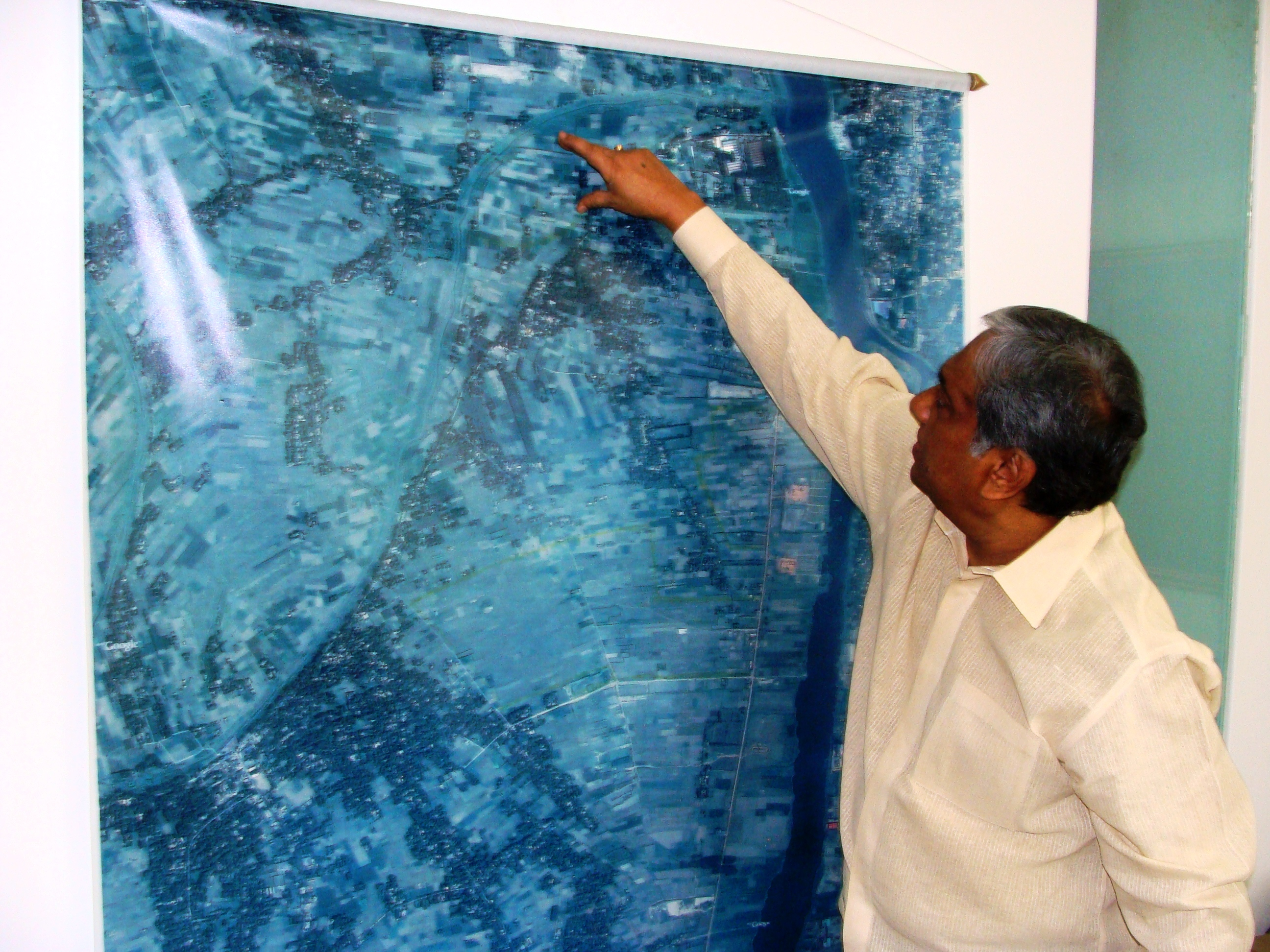 Abul Khair explaining his planning water ways to solve traffic problem of Dhaka